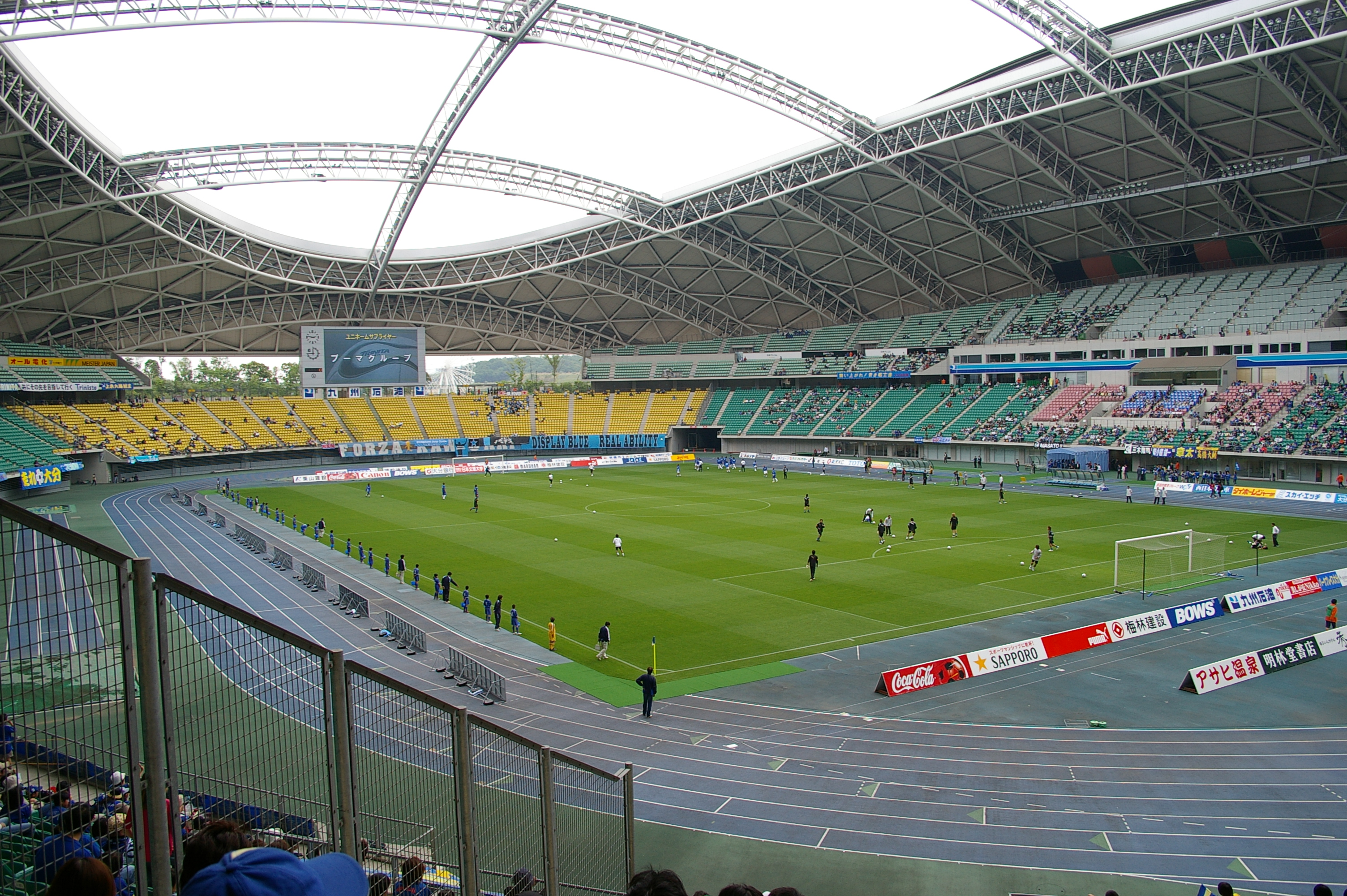 Kyusyu-Sekiyu dome,Bigeye